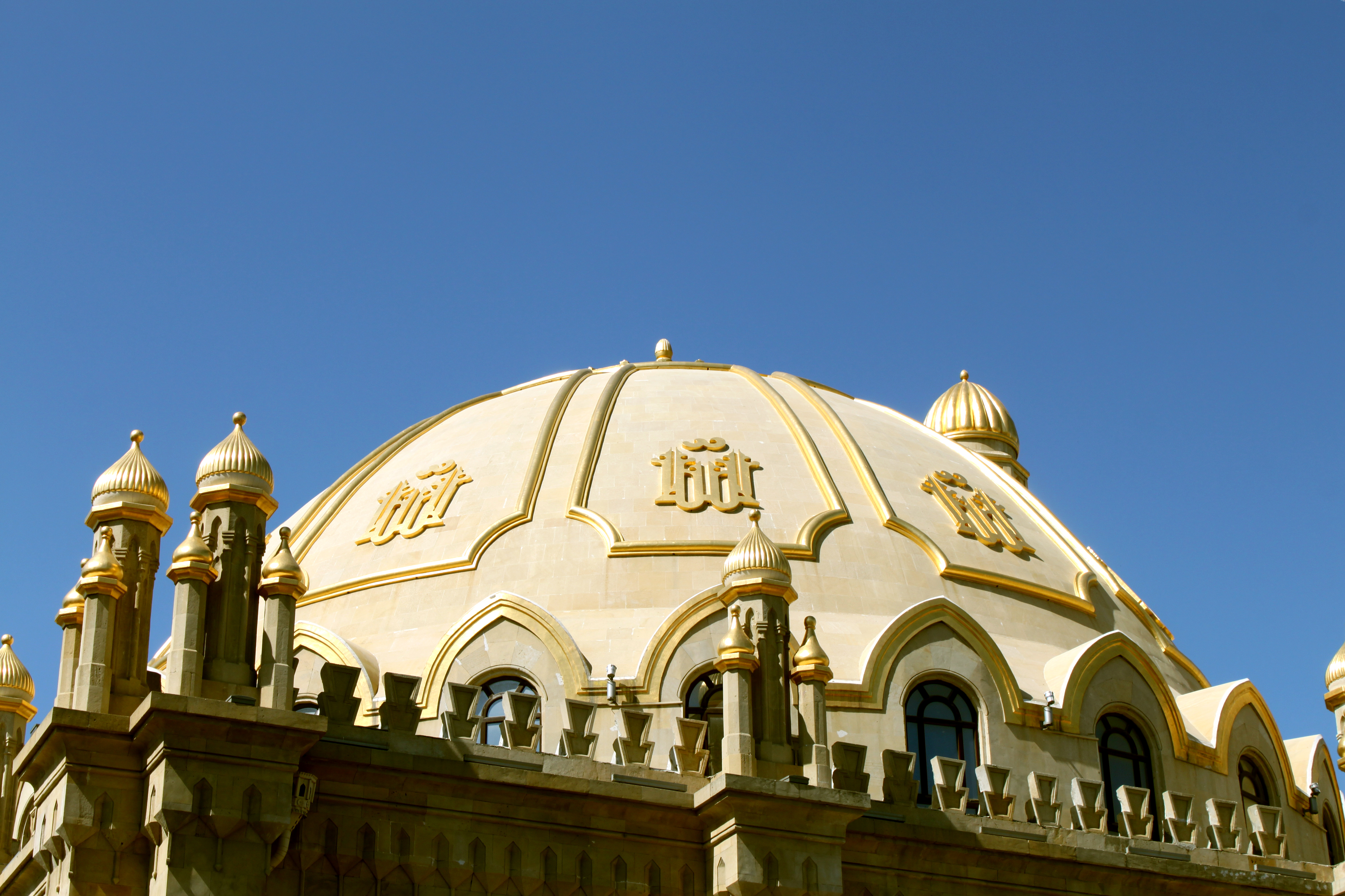 Dome and gold elements of Tezepir mosque